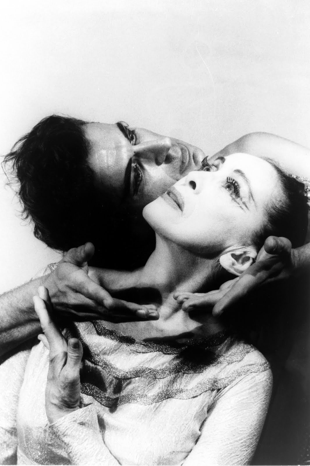 Portrait of Martha Graham and Bertram Ross, faces touching, in Visionary recital, June 27 1961.